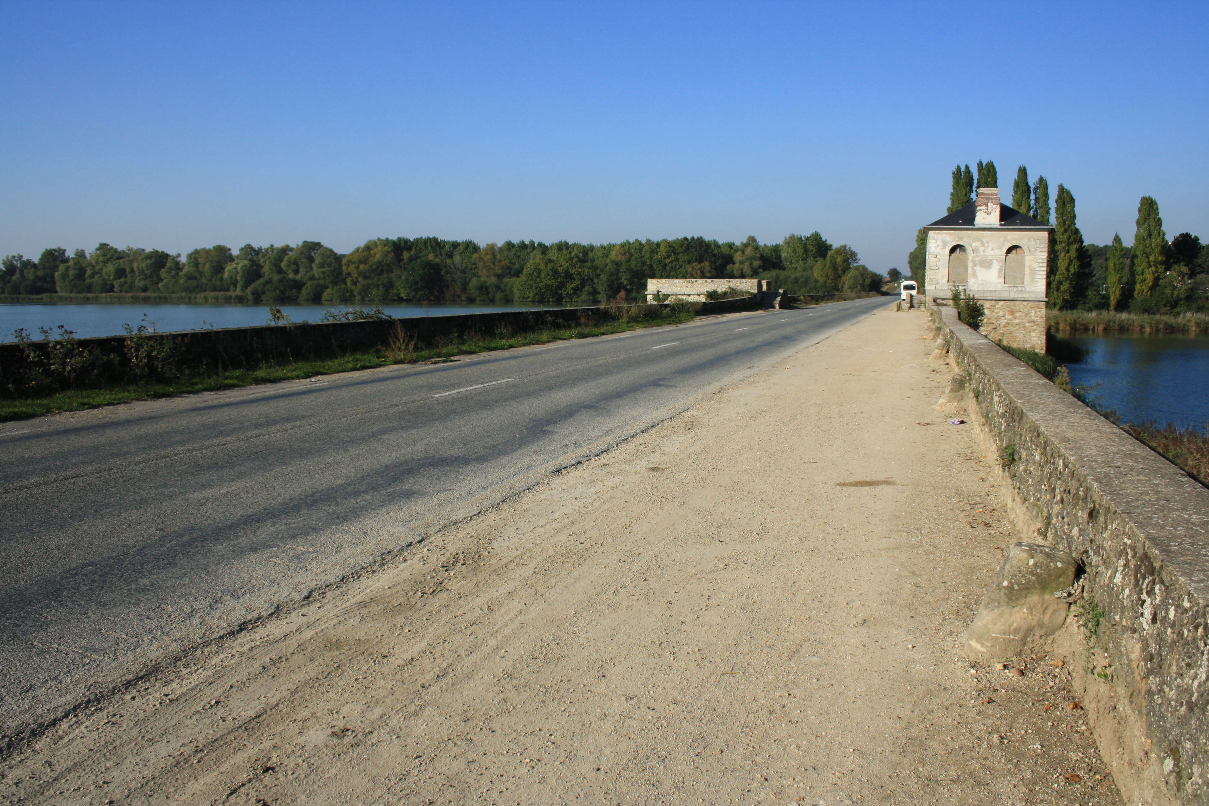 Pond of Saclay in Saclay, France.